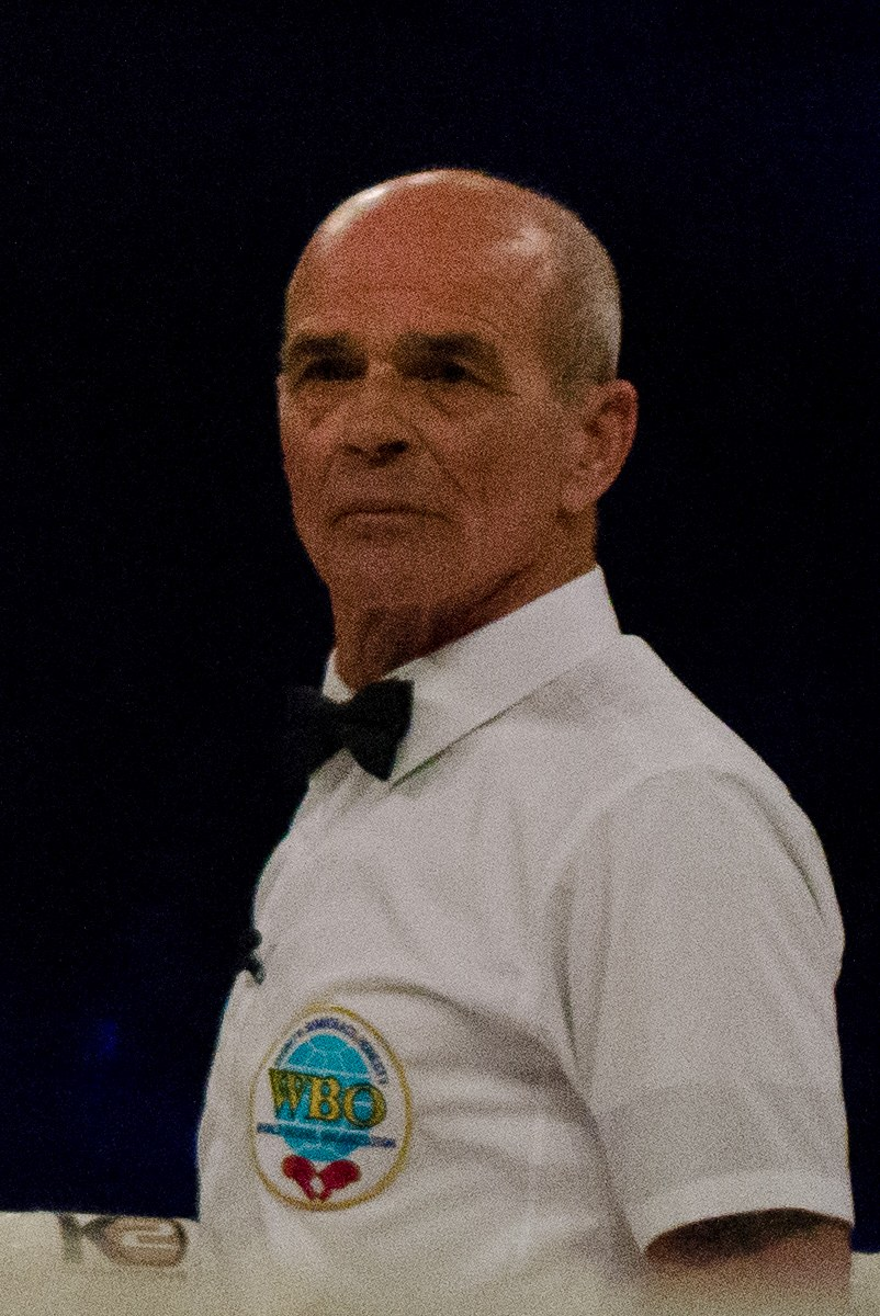 Oleksandr Usyk - Andrey Knyazev boxing fight, Kiev, Ukraine.